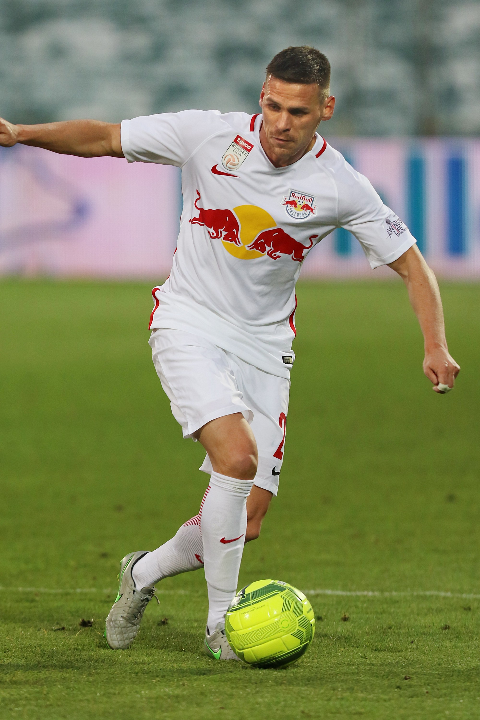 2016–17 Austrian Cup: FC Admira Wacker Mödling (red shirts) vs. FC Red Bull Salzburg (white shirts) at 26. April 2017 in the BSFZ-Arena in Maria Enzersdorf 0:5 (0:2) – The photo shows Christoph Leitgeb